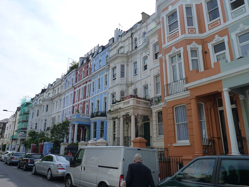 Colville Terrace, Notting Hill, London W11.